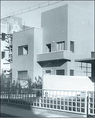 The Töplitz house in 1931, a pure Bauhaus style house. It became the house of the painter Reuven Rubin, who gave it to the municipality of Tel Aviv to transform it into a Museum (The Rubin Museum).